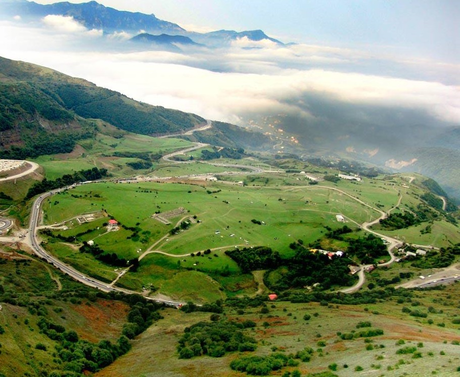 حئیران گرده نه سینین گوزللیقی